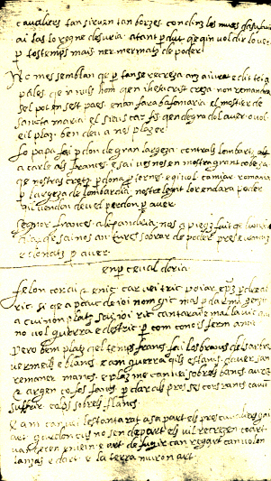 Felon cor ai et enic by Perceval Doria in troubadour paper MS a1, now in the Biblioteca Estense in Modena. Made in Italy in 1589.